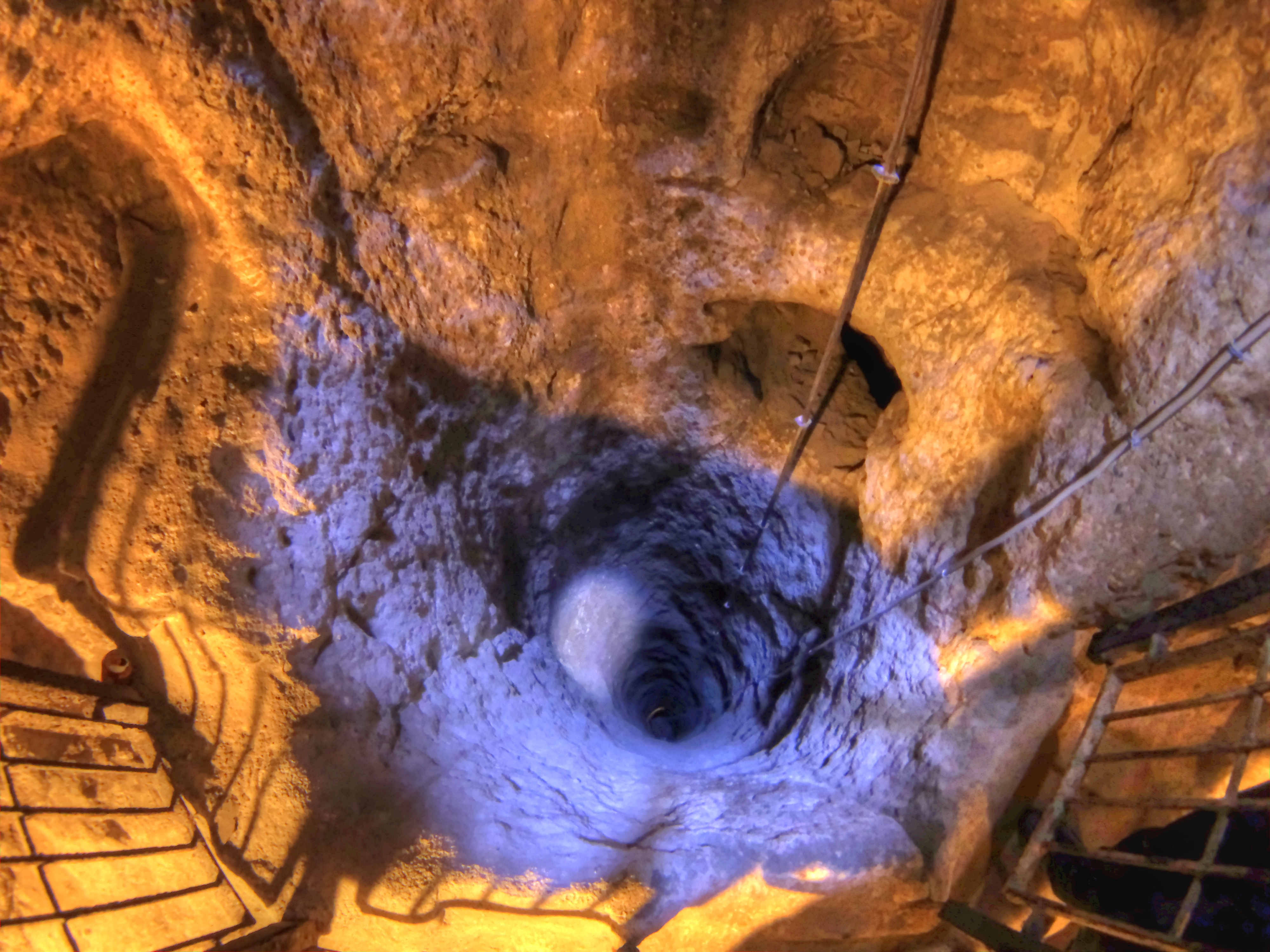 Ventilation well in Derinkuyu Underground City in Cappadocia, Turkey. Christians fled the enemies and hid in this underground cities. All digging starts with a ventilation well and afterwards city expands horizontally.